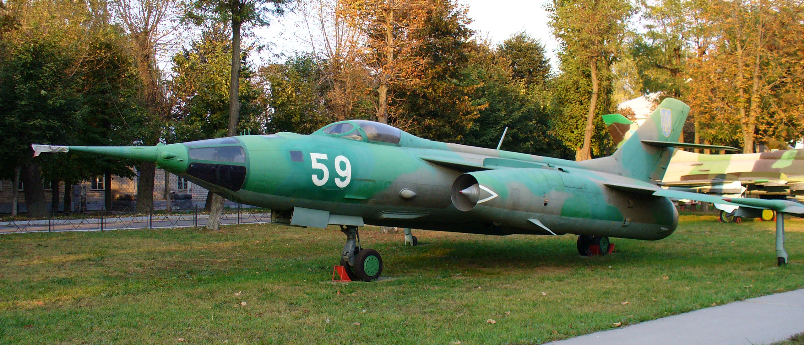 Yakovlev Yak-28PP (NATO reporting name - Brewer-E). Un-armed electronic countermeasures aircraft with an extensive EW(electronic warfare) suite in the bomb bay. Ukrainian Air Force Museum in Vinnitsa.